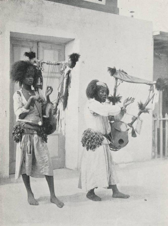 NATIVE MINSTRELS.Two people holding stringed instruments and performing in the street.